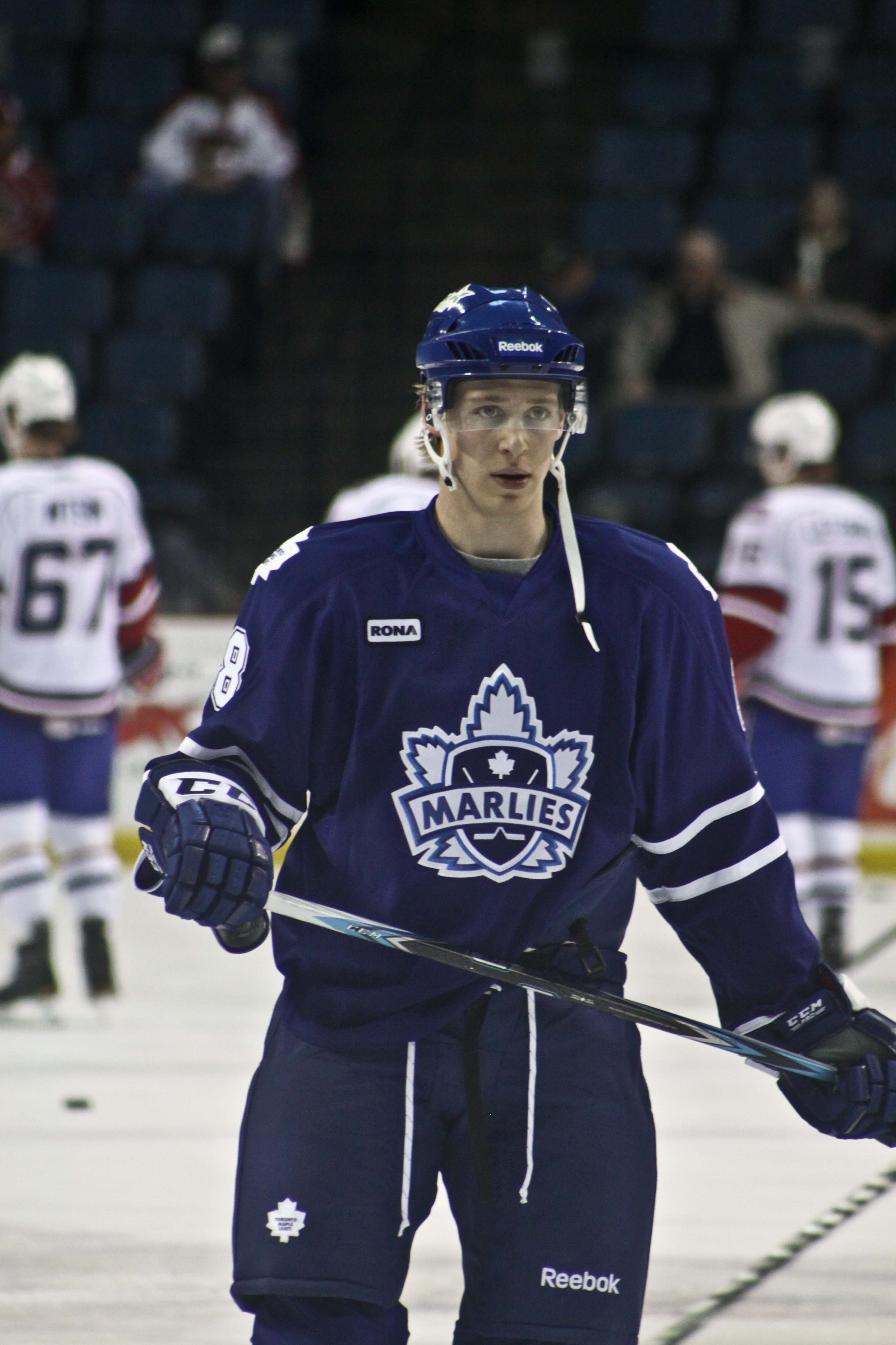 Carter Ashton's first game as a Toronto Marlie in Hamilton Ontario.